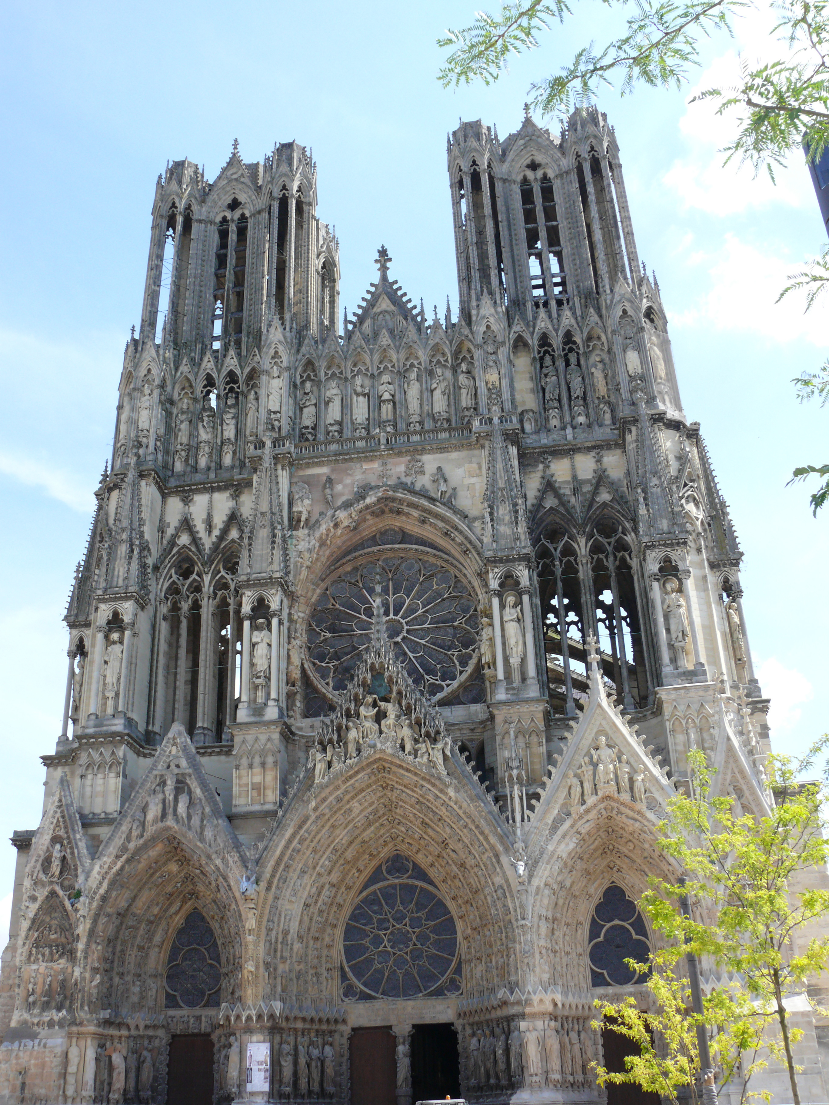 Notre-Dame de Reims (Our Lady of Rheims) is the cathedral of Reims, where the kings of France were once crowned. It replaces an older church, destroyed by a fire in 1211, which was built on the site of the basilica where Clovis was baptized by Saint Remi, bishop of Reims, in AD 496. A major site for tourism in the Champagne region, it accommodates nearly one and a half a million visitors yearly.